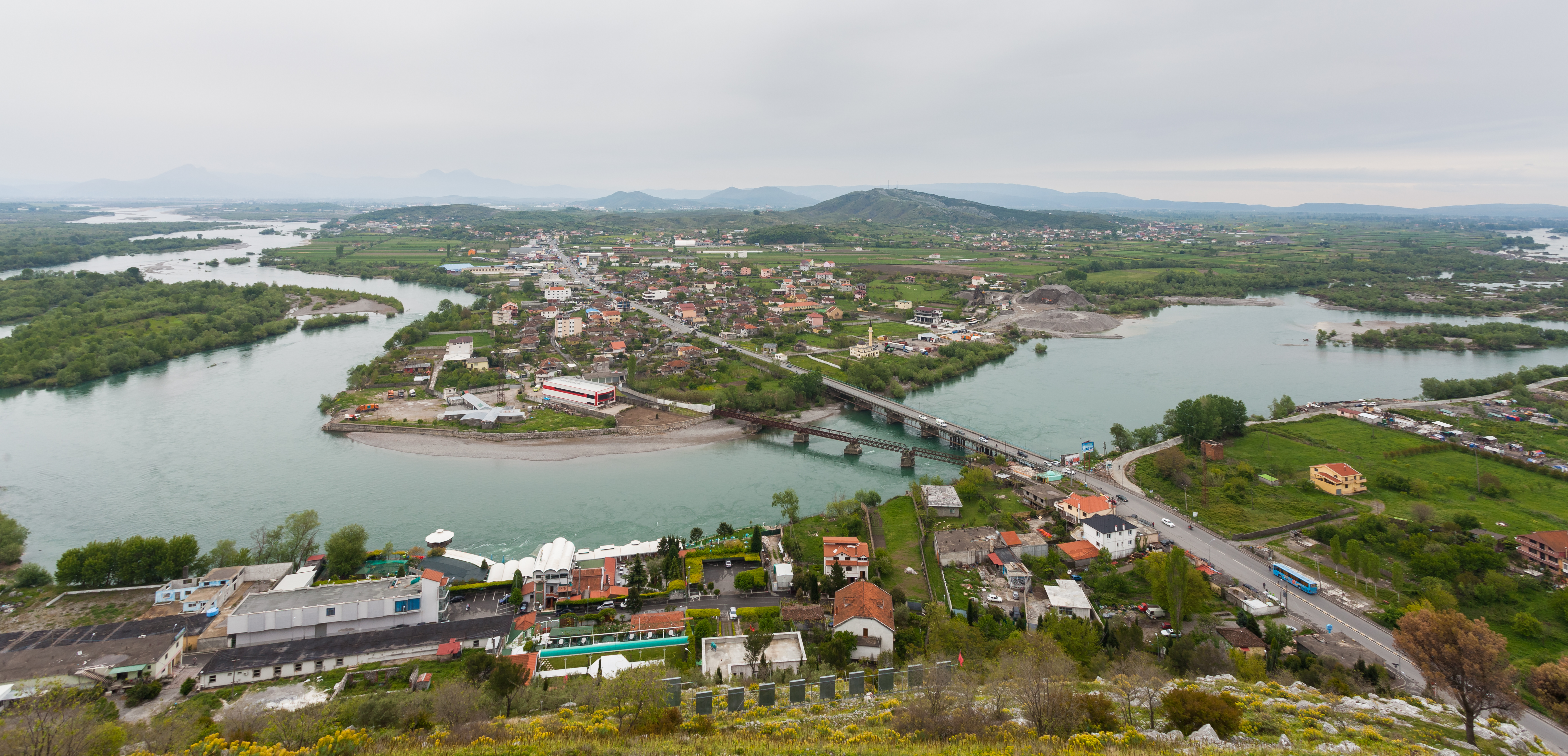 View of Shkodra, Albania